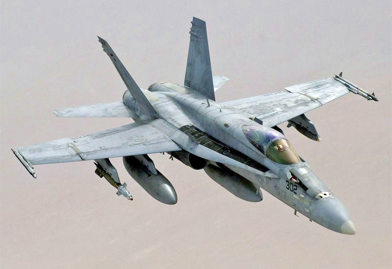 An F/A-18C receives fueling from a 434th Air Refueling KC-135